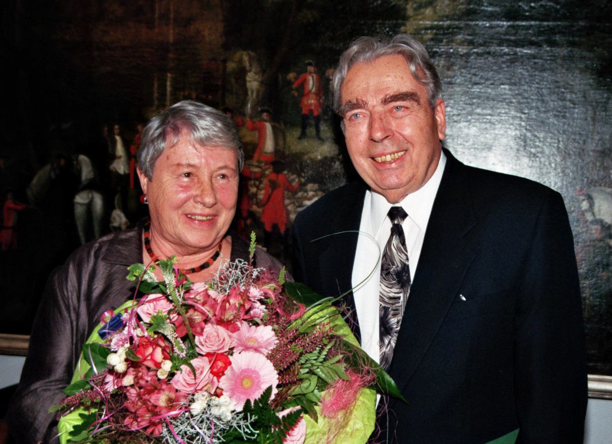 Freya and Hans-Joachim Weimann at the award ceremony of the Georg-Ludwig-Hartig-Preis 2009 on October 29, 2009 at Jagdschloss Kranichstein, Darmstadt, Hesse, Germany.